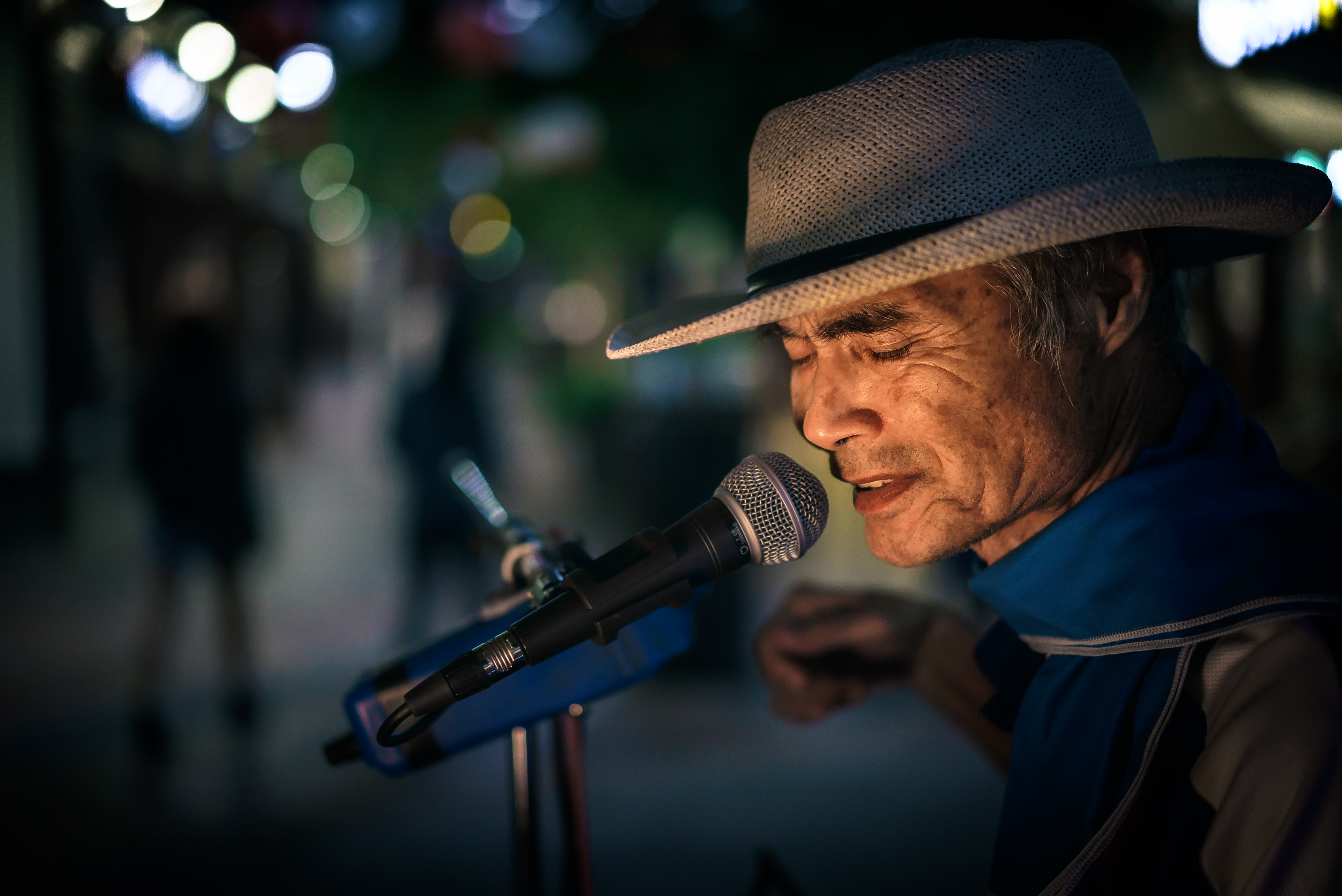 photo